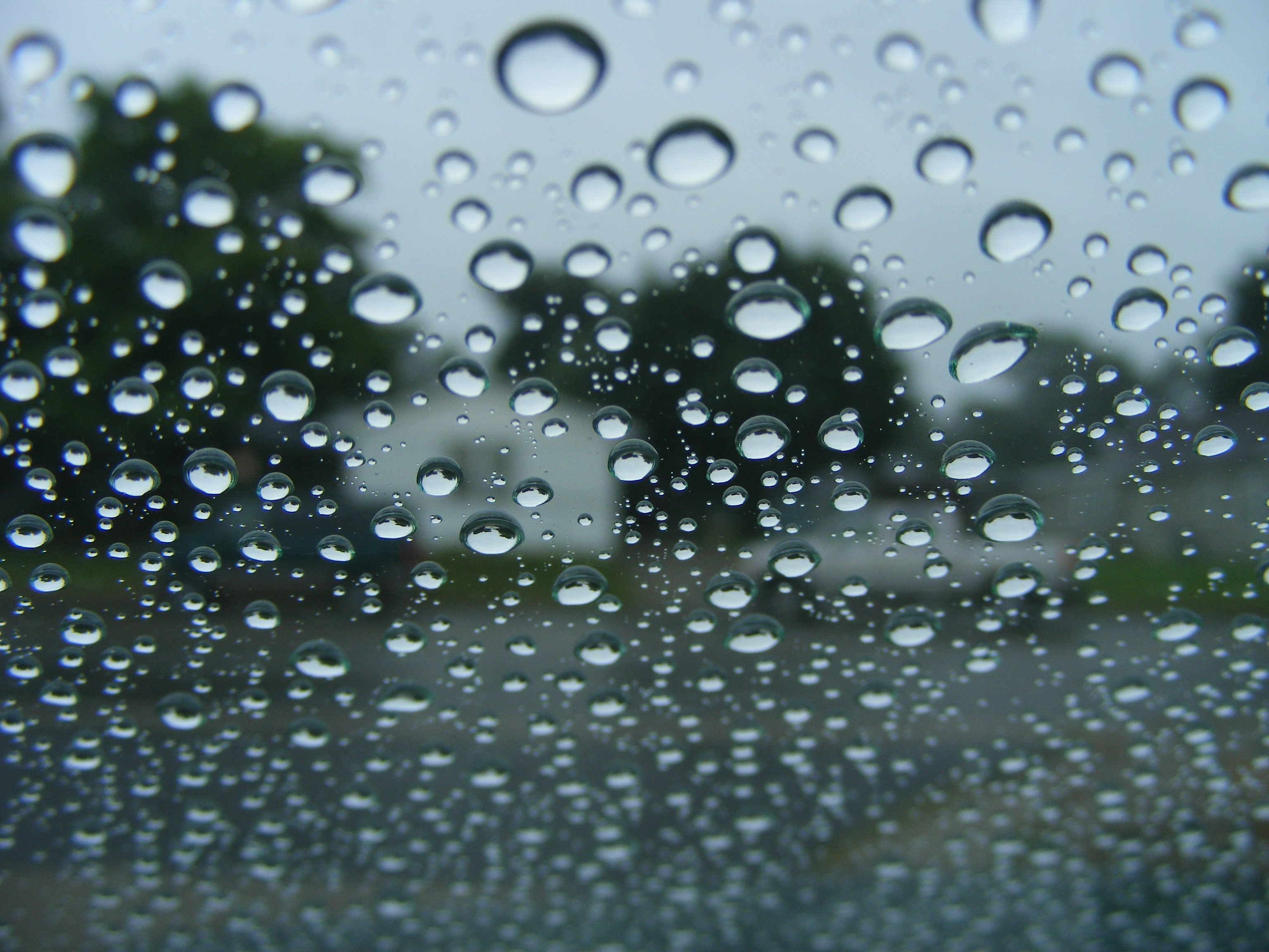 Water droplets beaded up on a hydrophobic surface.